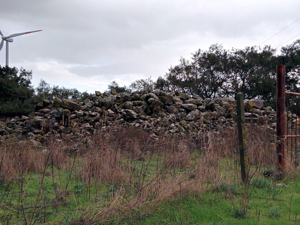 a destroyed nuraghe of Pabillonis in Dom'e campu Zone